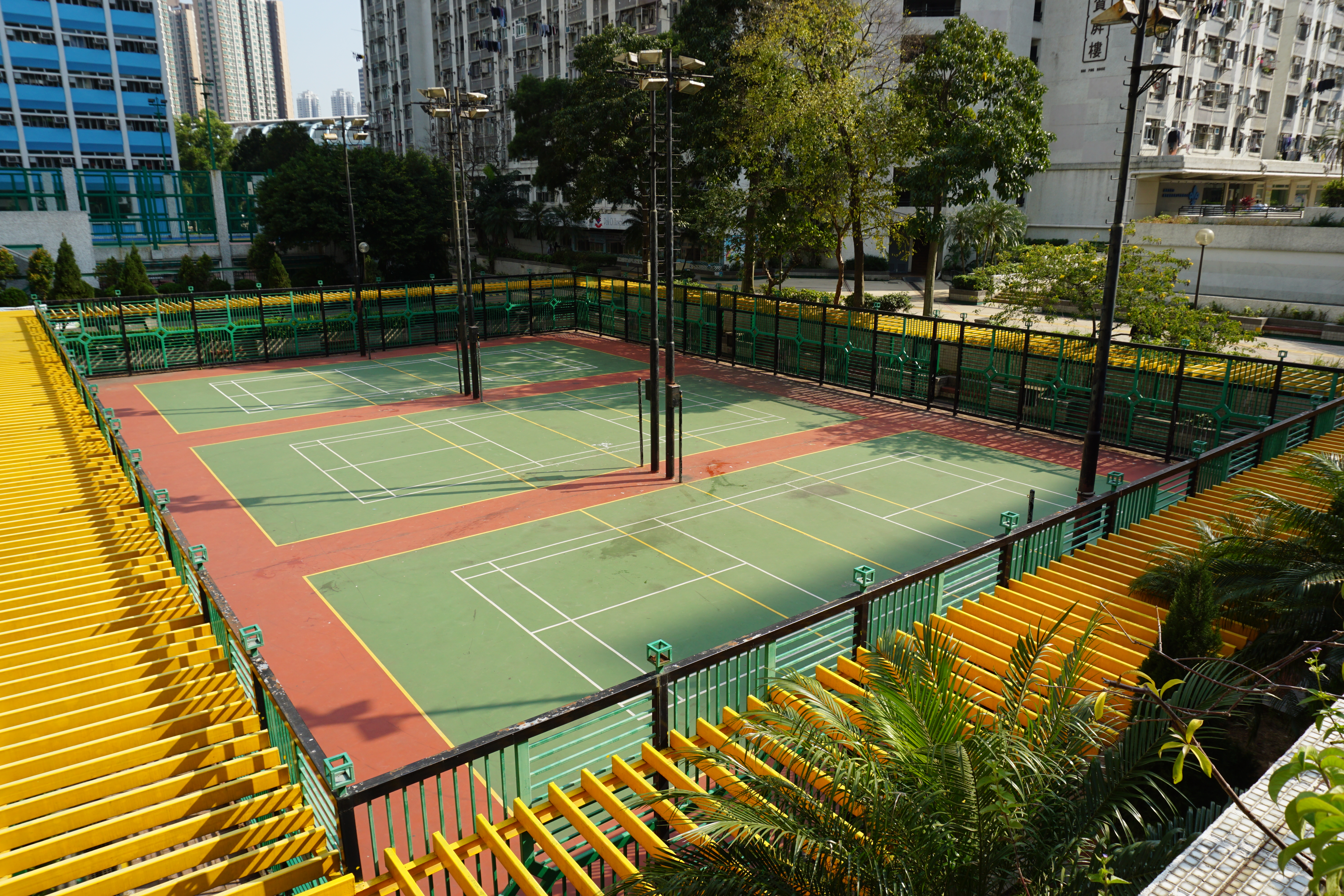 Long Ping Estate in Yuen Long, Hong Kong.